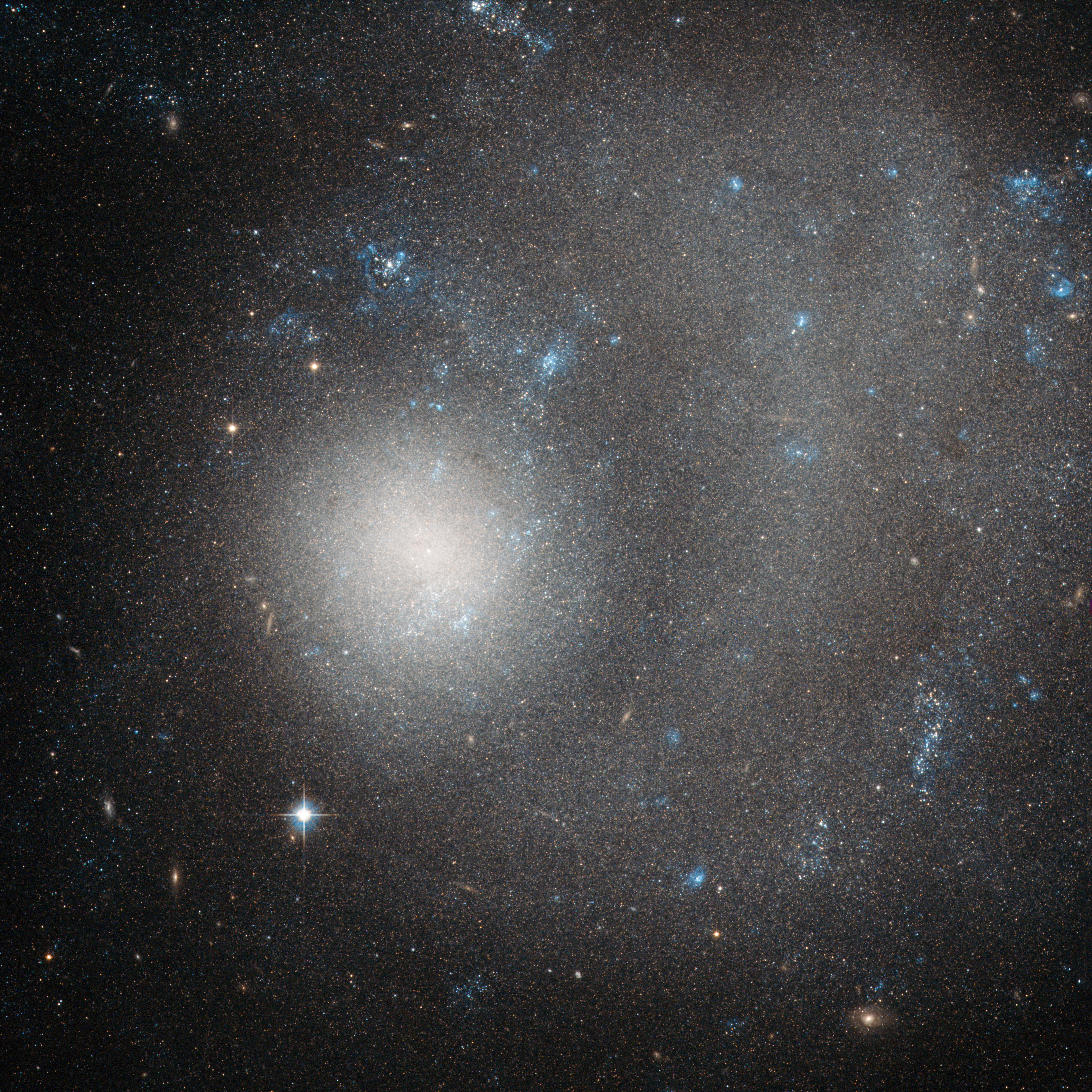 The subject of this new Hubble image is NGC 5474, a dwarf galaxy located 21 million light-years away in the constellation of Ursa Major (The Great Bear). This beautiful image was taken with Hubble's Advanced Camera for Surveys (ACS). The term "dwarf galaxy" may sound diminutive, but don't let that fool you — NGC 5474 contains several billion stars! However, when compared to the Milky Way with its hundreds of billions of stars, NGC 5474 does indeed seem relatively small. NGC 5474 itself is part of the Messier 101 Group. The brightest galaxy within this group is the well-known spiral Pinwheel Galaxy (also known as Messier 101, heic0602). This galaxy's prominent, well-defined arms classify it as a "grand design galaxy", along with other spirals Messier 81 (heic0710) and Messier 74 (heic0719). Also within this group are Messier 101's galactic neighbours. It is possible that gravitational interactions with these companion galaxies have had some influence on providing Messier 101 with its striking shape. Similar interactions with Messier 101 may have caused the distortions visible in NGC 5474. Both the Messier 101 Group and our own Local Group reside within the Virgo Supercluster, making NGC 5474 something of a neighbour in galactic terms.